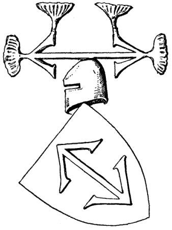 Coat of arms Bogoria, one of the oldest seals